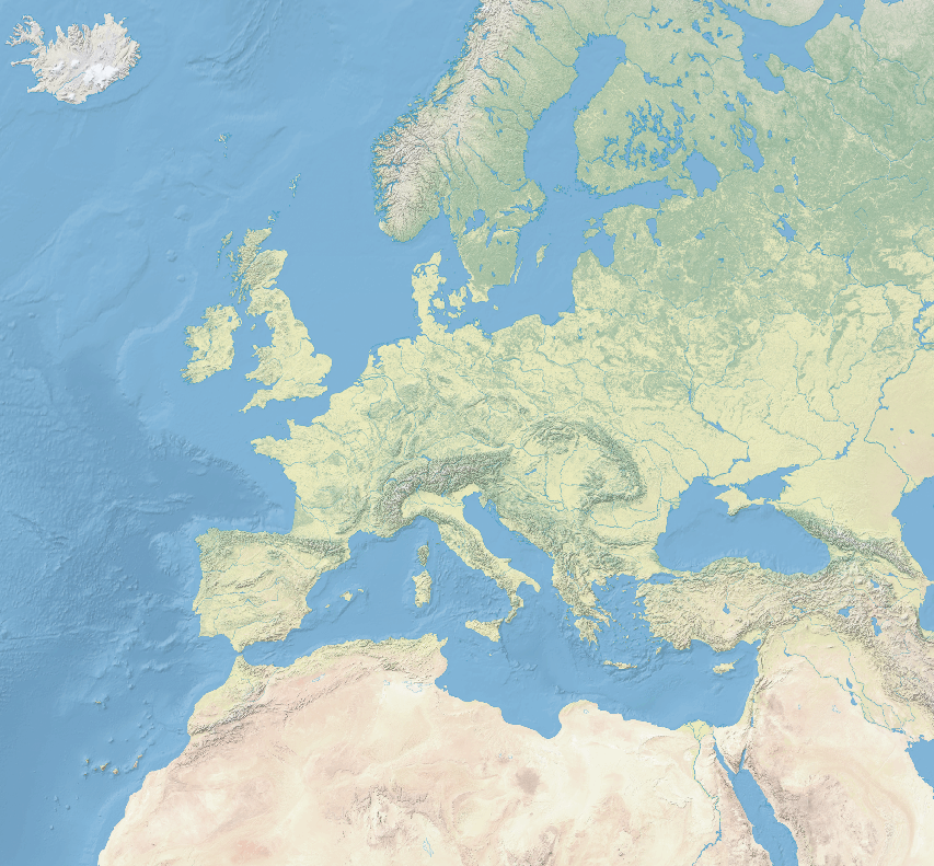 Map of Europe including North Africa. Geographic limits of the map: * N: 67° N * S: 21° N * W: -25° W * E: 50° E